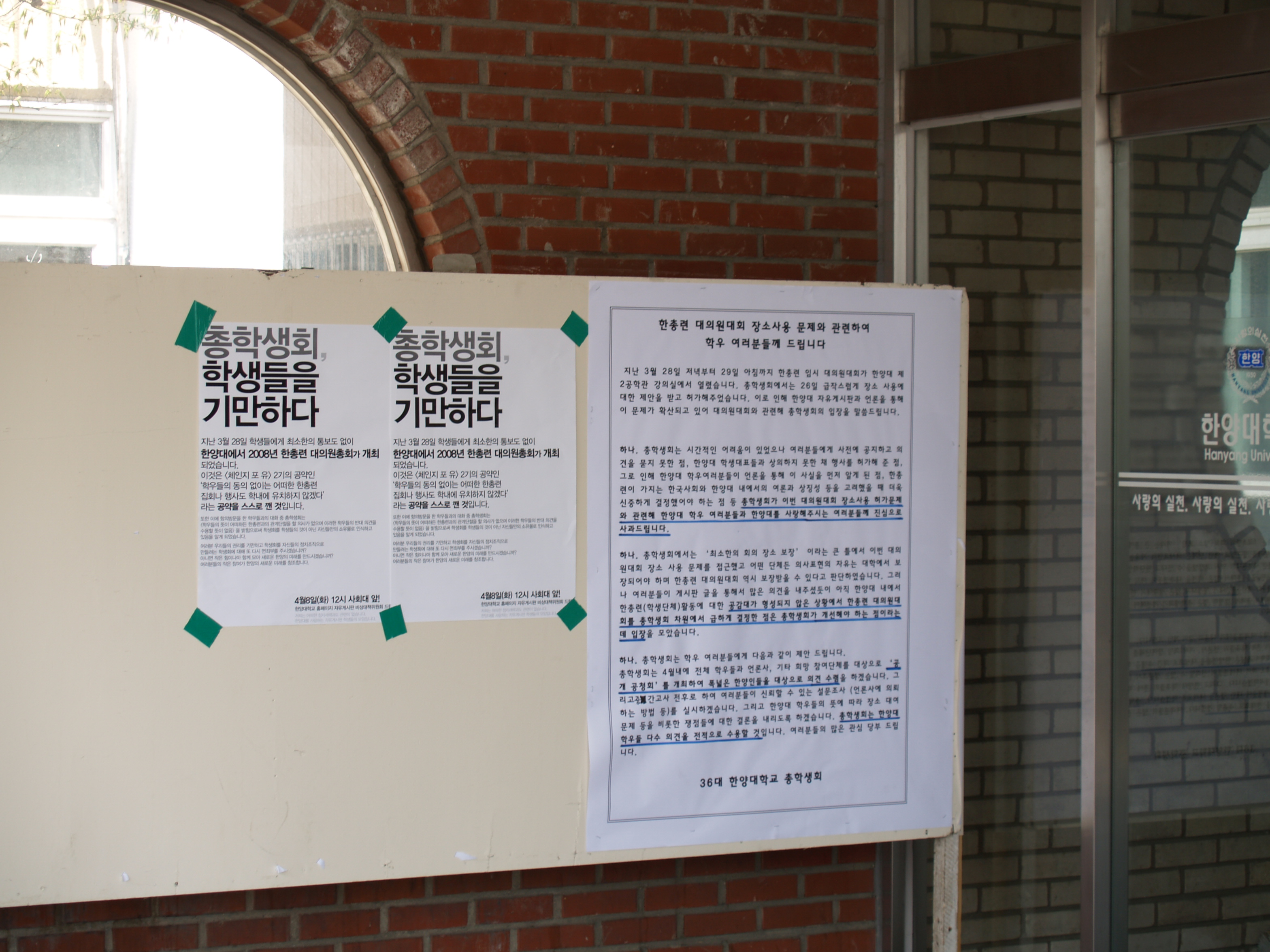 Poster about breaking GSA pledge, Hanyang University